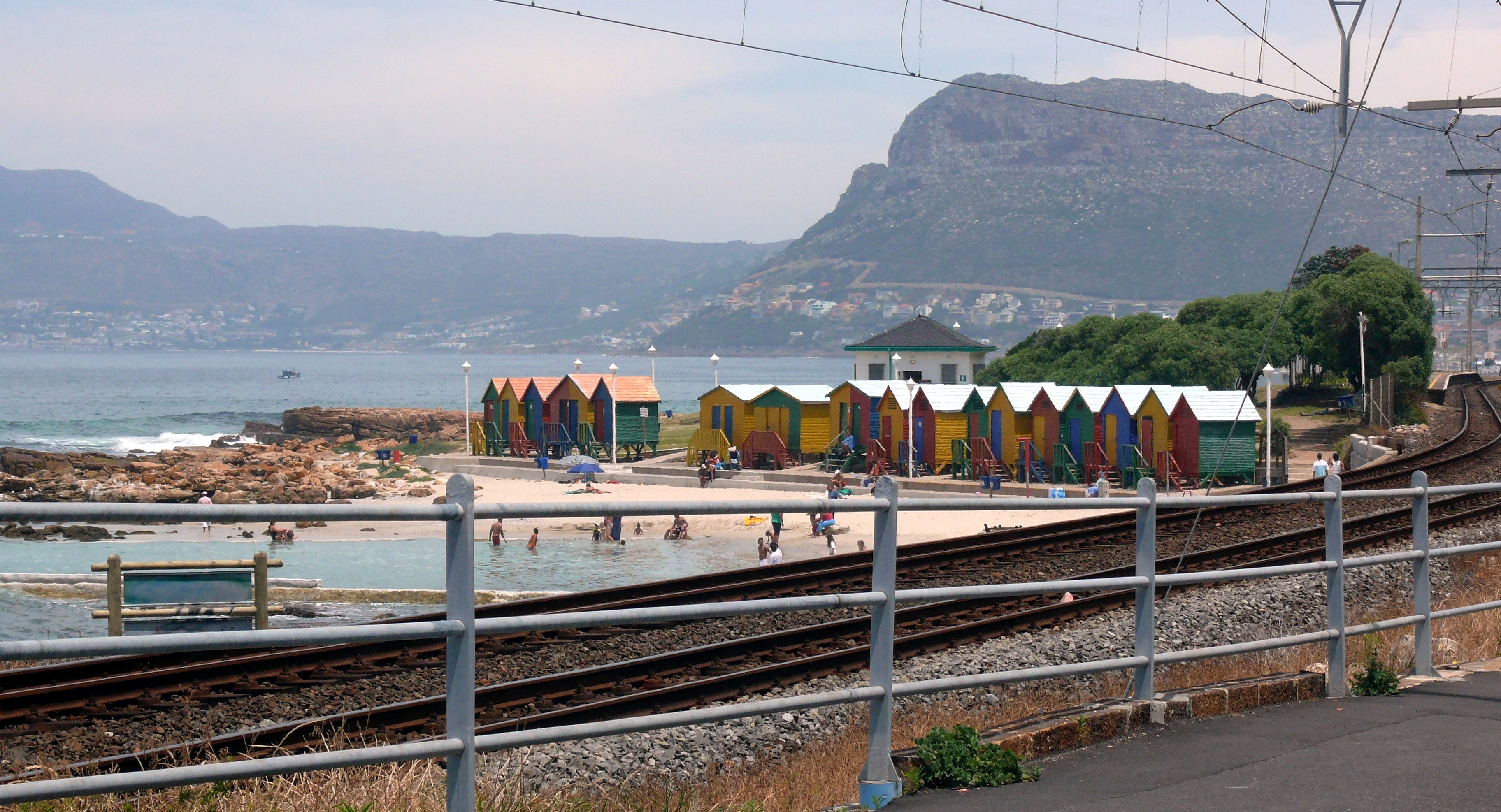 St. James, Between Muizenberg and Fish Hoek